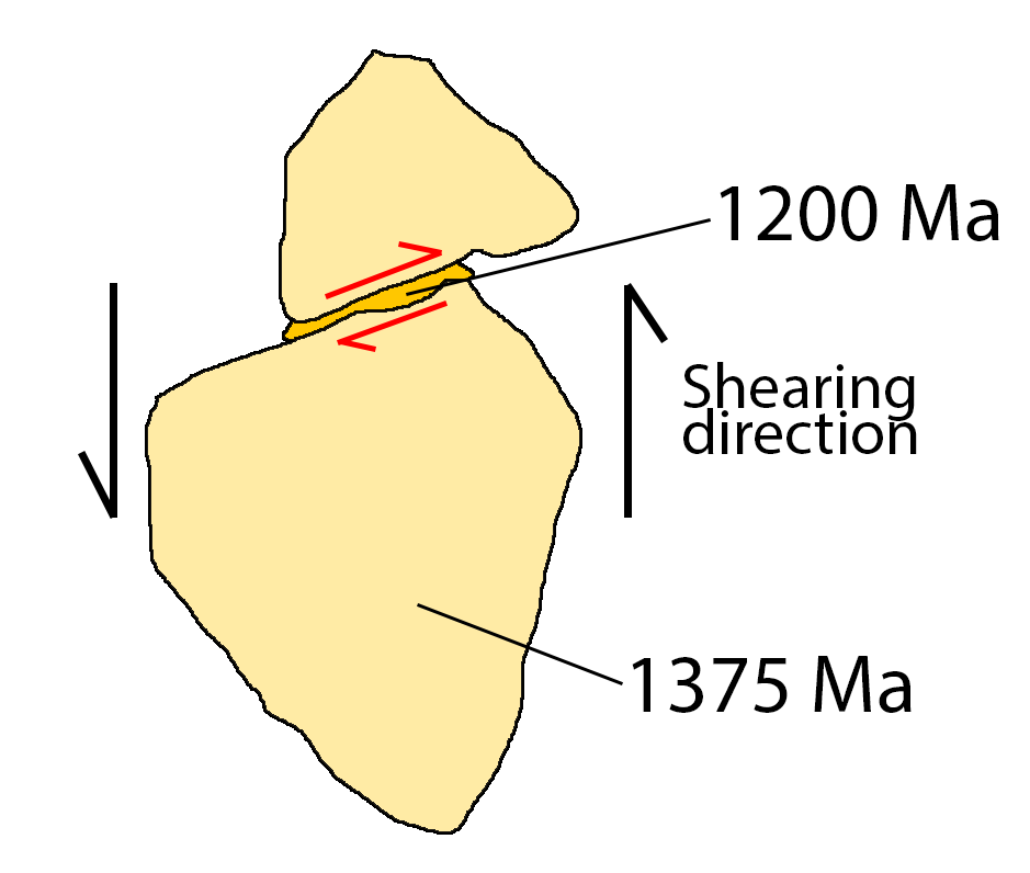 Schematic diagram showing monazite fracture with later monazite filling the fracture (modified from Shaw, C. A., Karlstrom, K. E., Williams, M. L., Jercinovic, M. J., & McCoy, A. M. (2001). Electron-microprobe monazite dating of ca. 1.71–1.63 Ga and ca. 1.45–1.38 Ga deformation in the Homestake shear zone, Colorado: Origin and early evolution of a persistent intracontinental tectonic zone. Geology, 29(8), 739-742)